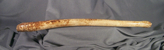 Walrus baculum, approximately 22 inches long